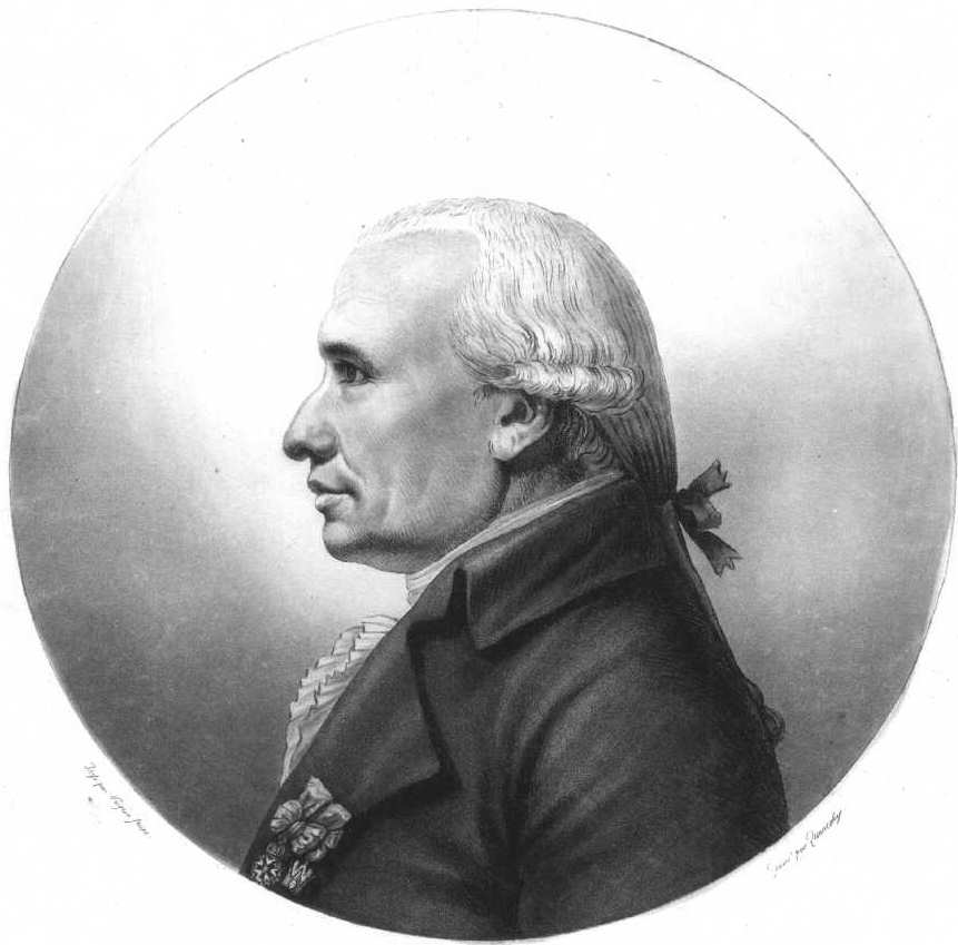 from [1]